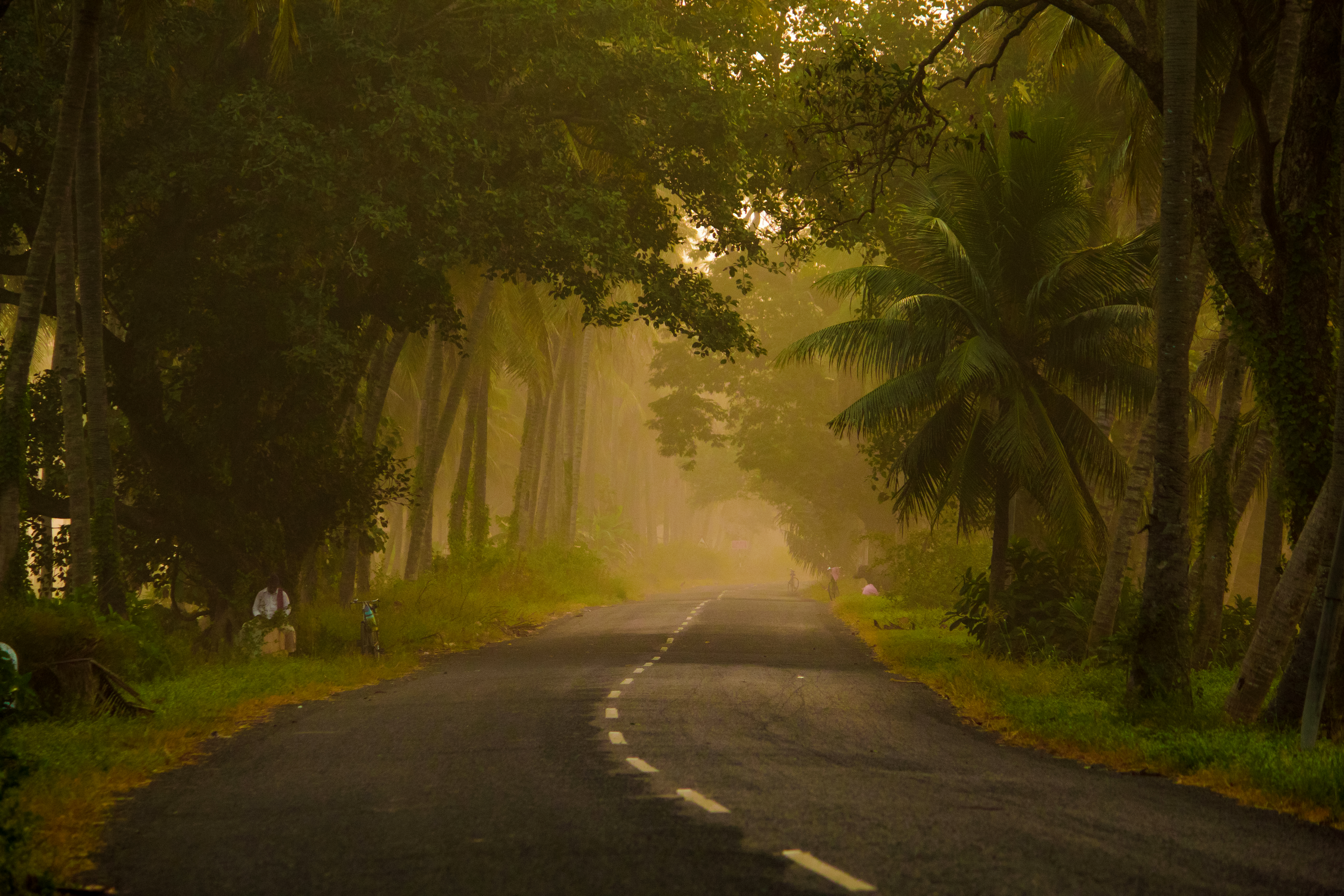 Vendra - Ramachandrapuram road near Kondepudi, West Godavari district